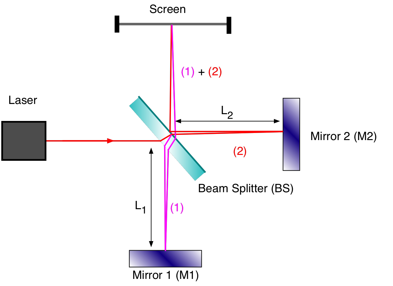 Michelson interferometer scheme